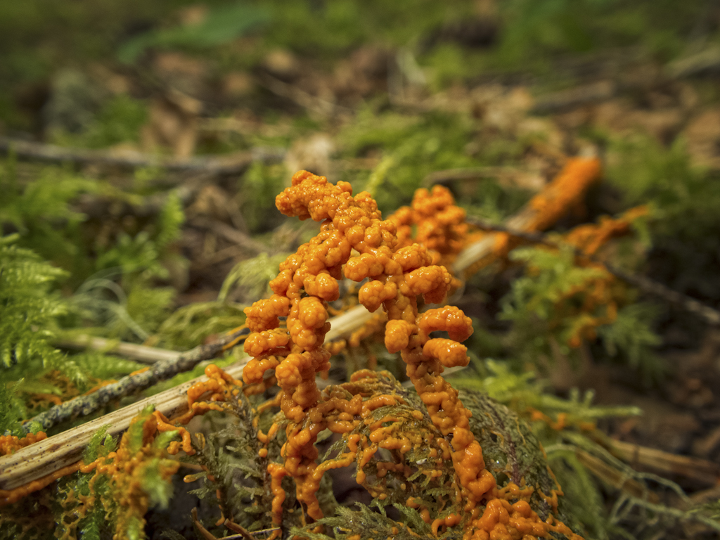 (thanks Chris for the ID confirmation!)